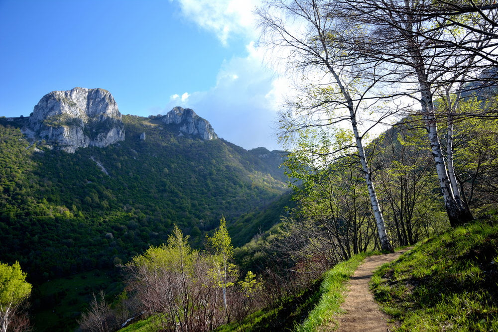 Mount Corni di Canzo view